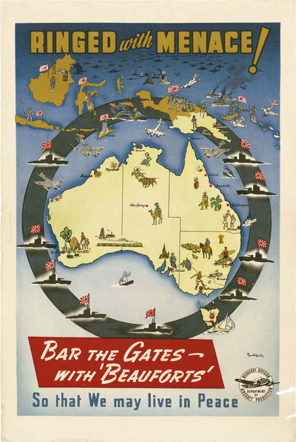 Sourced from: Copyright: The AWM record for this artwork states that the copyright status is 'copyright expired'. The painting was made in 1942. AWM Caption: A poster produced for the Beaufort Division of the Department of Aircraft Production during the Second World War. The poster depicts a map of Australia ringed by threatening Japanese ships and aircraft. The islands of Netherlands East Indies are occupied by a Japanese Army and their are ships sinking off the coastline. The scenes within the map of Australia are of agricultural activities and sports, images of the 'Australian' way of life. The text below the image reads 'Bar the Gates with Beauforts so that we may live in Peace'.